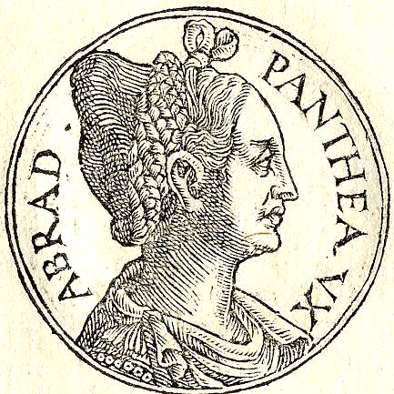 Pantheia was a wife of Abradatas who was a king, probably fictional, of Susa, known to us from Xenophon's partly fictional biography of Cyrus the Great, the Cyropaedia.